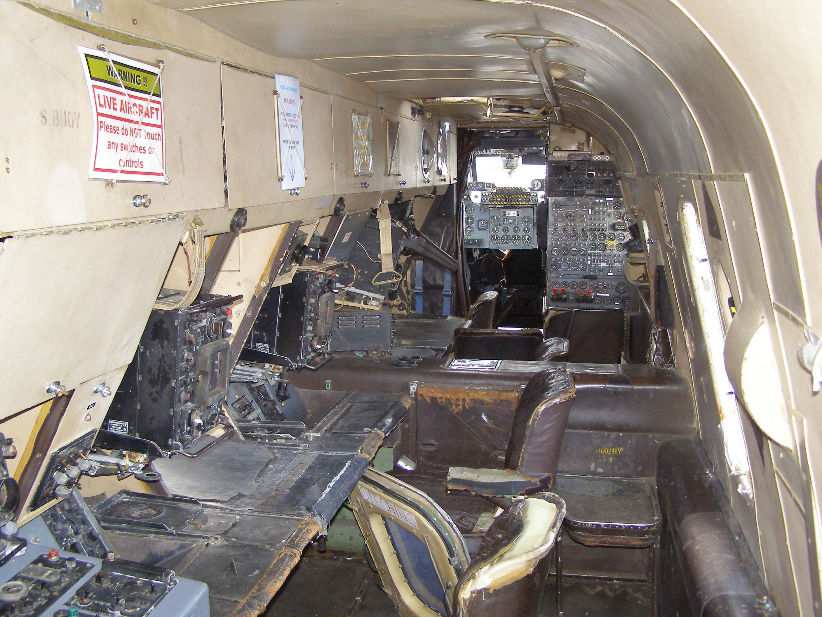 Former Royal Air Force Avro Shackleton MR3 WR982 coded "J" on display at the Gatwick Aviation Museum, England